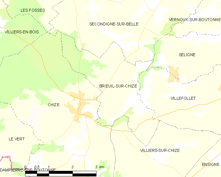 Map of French municipality Brieuil-sur-Chizé